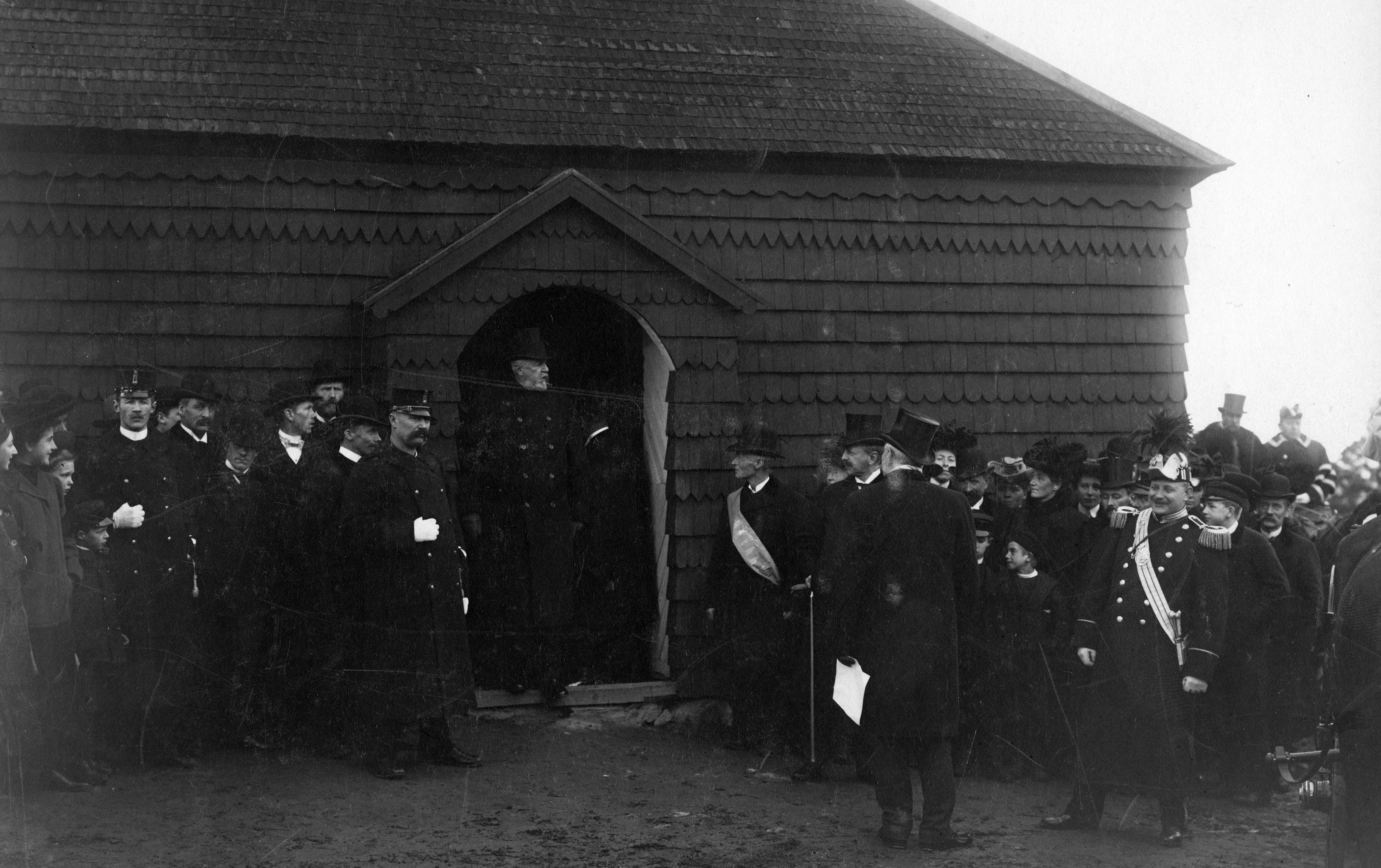 Bäckaby old church.